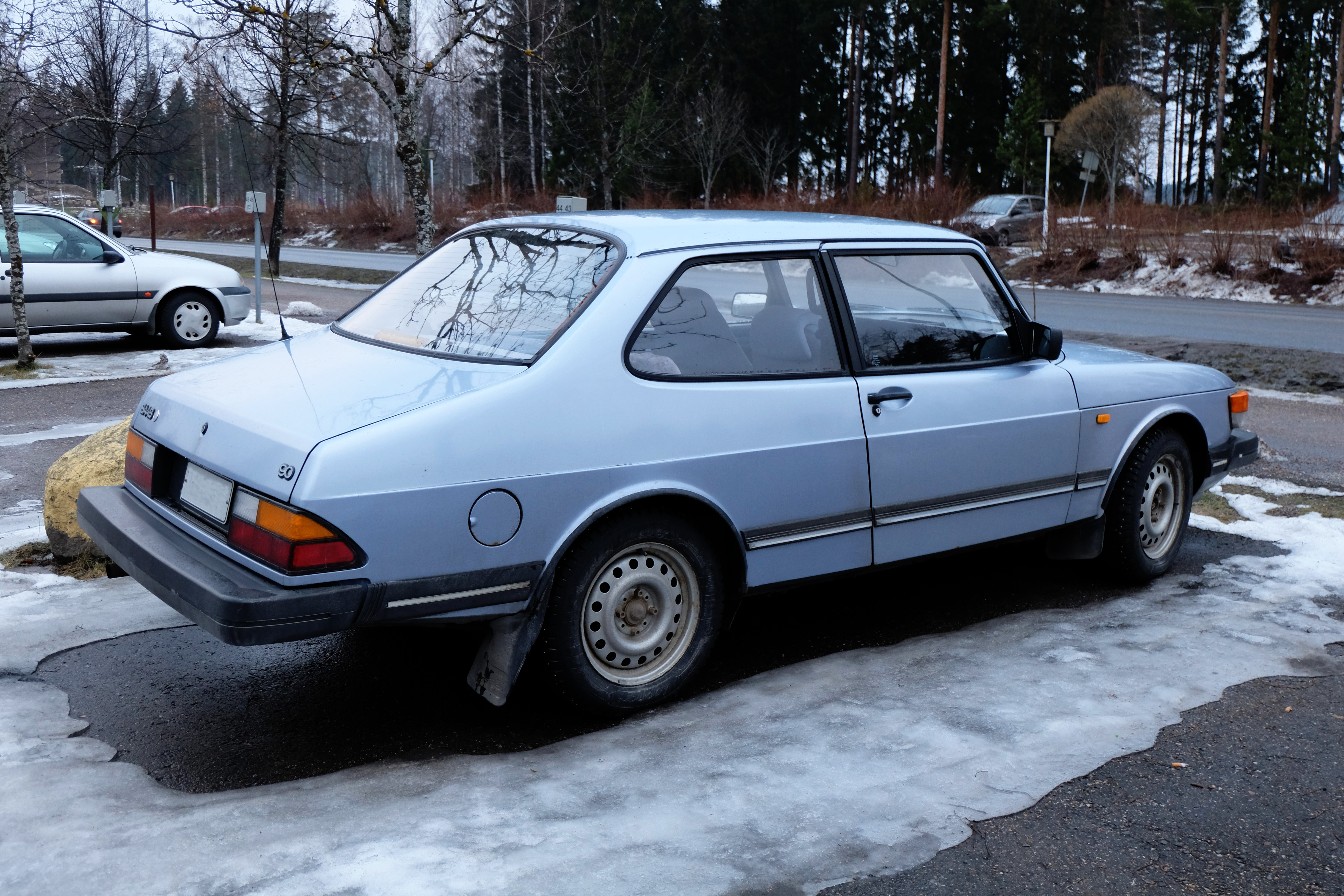 Blue SAAB 90 compact luxury car photographed in Lappeenranta, Finland.